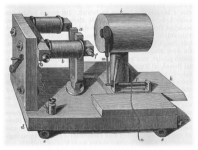 A Helmholtz resonator in an experimental tone generator designed by Hermann Helmholtz. The resonator is the cylindrical object (i). Most musical tones are composed of many frequencies, called harmonics. The purpose of this device was to generate a pure tone of one frequency. The electromagnet (b) vibrates the tuning fork (a). The Helmholtz resonator (i) is tuned to the fundamental frequency of the tuning fork, amplifying its sound. For more information see Hermann L. F. Helmholtz (1912) On the Sensations of Tone as a Physiological Basis for the Theory of Music, 4th Ed., translated from his 1877 work by Alexander J. Ellis, Longmans Greene & Co., London, p.120-121